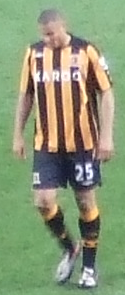 Daniel Cousin